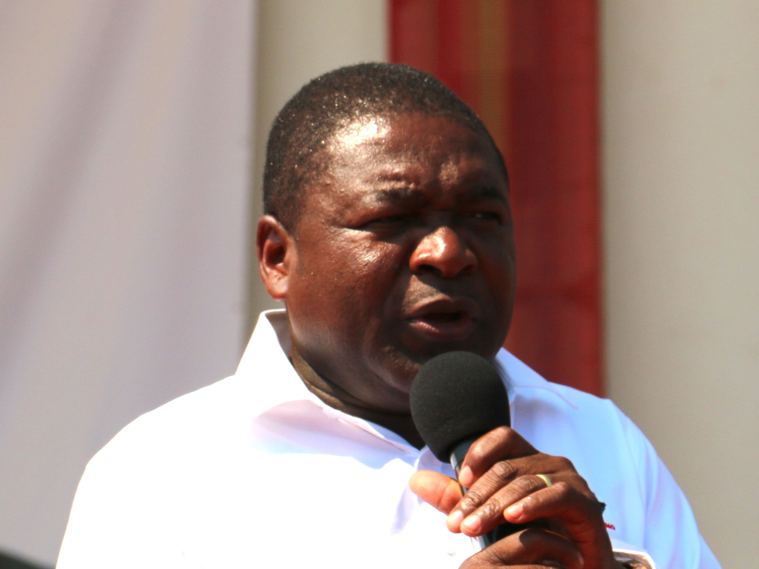 Filipe Nyusi